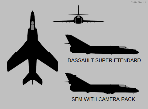 2-view silhouettes of the Dassault Super Etendard